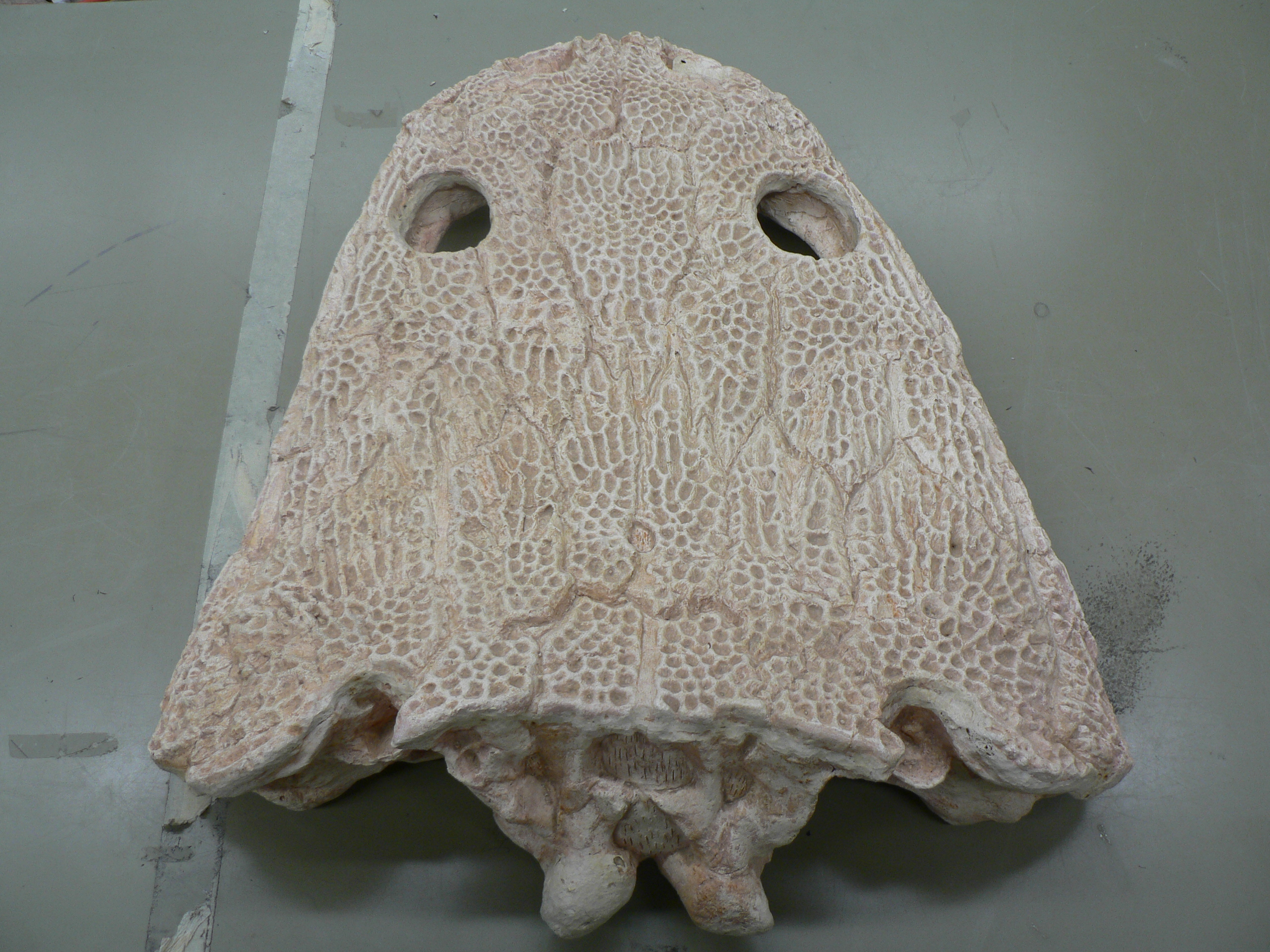 Metoposaurus skull - dorsal view. University of Alberta Laboratory for Vertebrate Paleontology (UALVP).